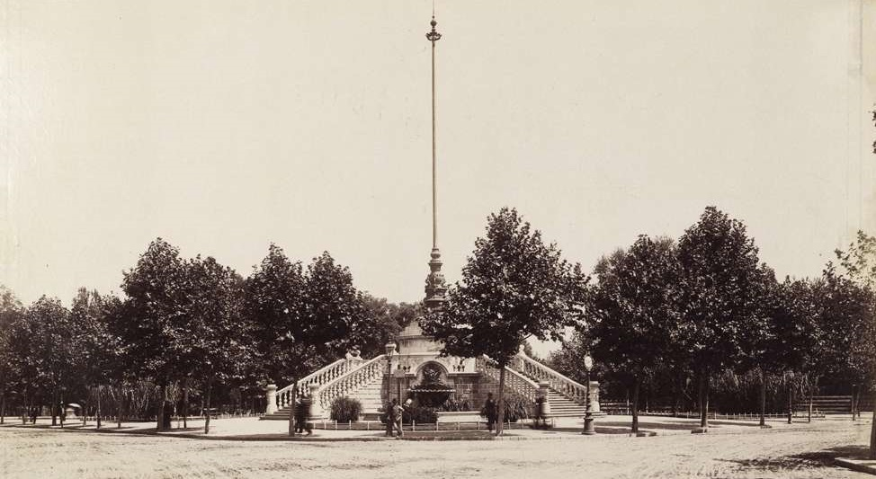 Gloriette - Heroes' Square (Budapest) in 1884